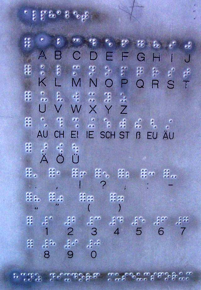 A braille index from the Nixdorfmuseum. The last line reads: "Heinz Nixdorf Museums Forum".